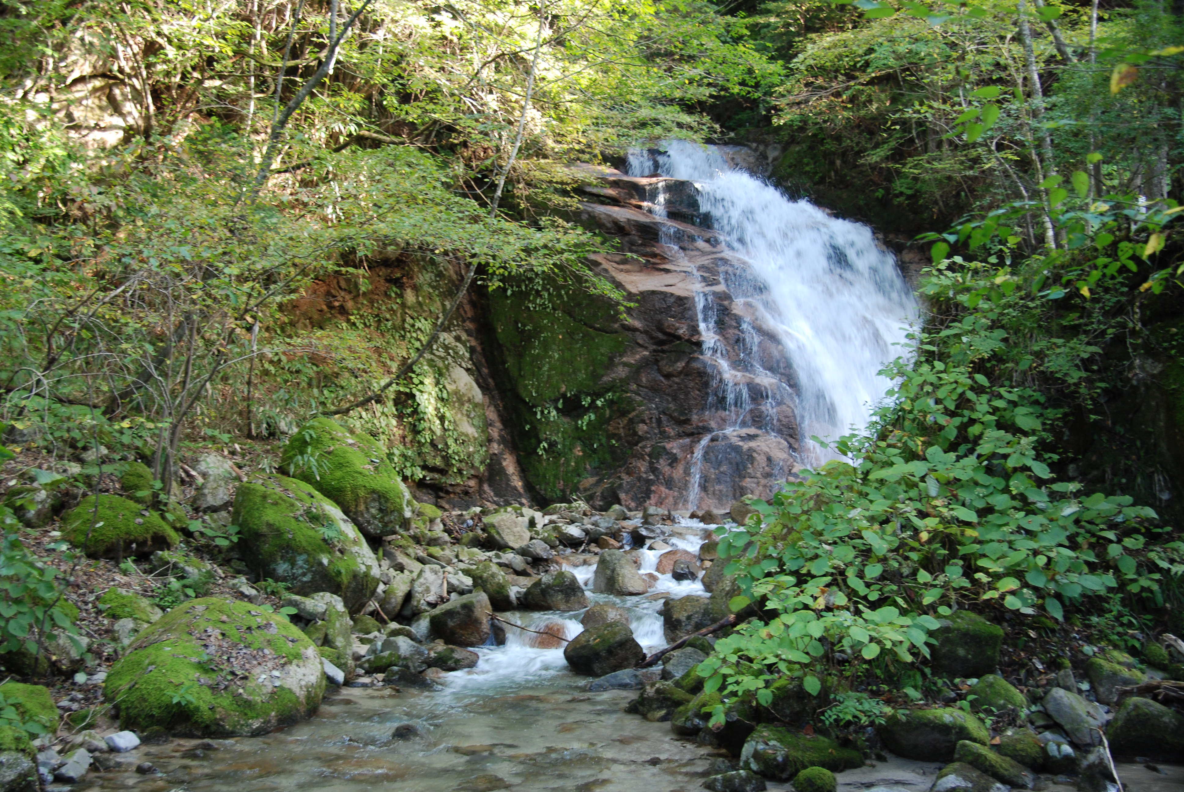 Odaki waterfall as seen from the Nakasendo between Magome-juku and Tsumago-juku